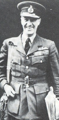 Cyril Newall, 1st Baron Newall in the uniform of an air chief marshal